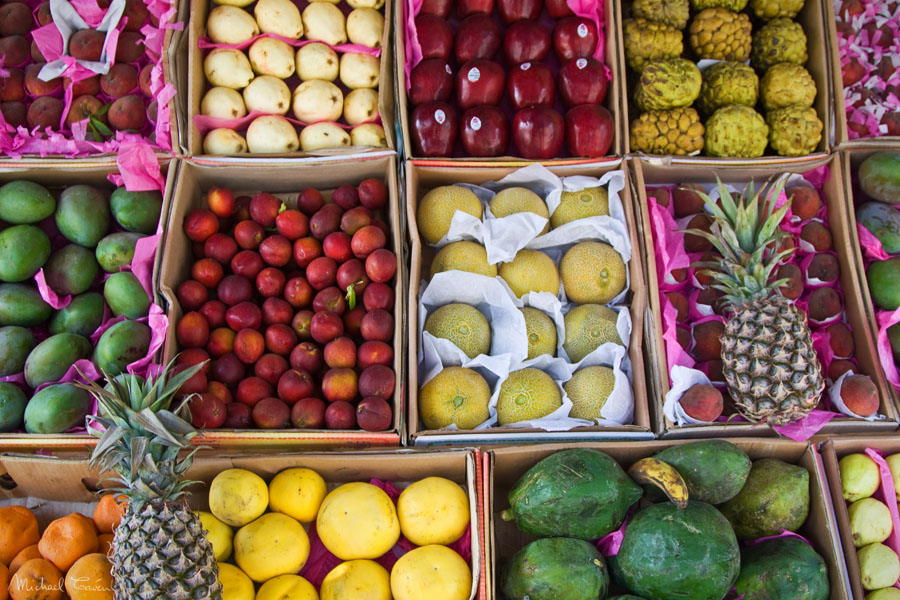 Fresh fruits sold on the street in Hurghada, Egypt.